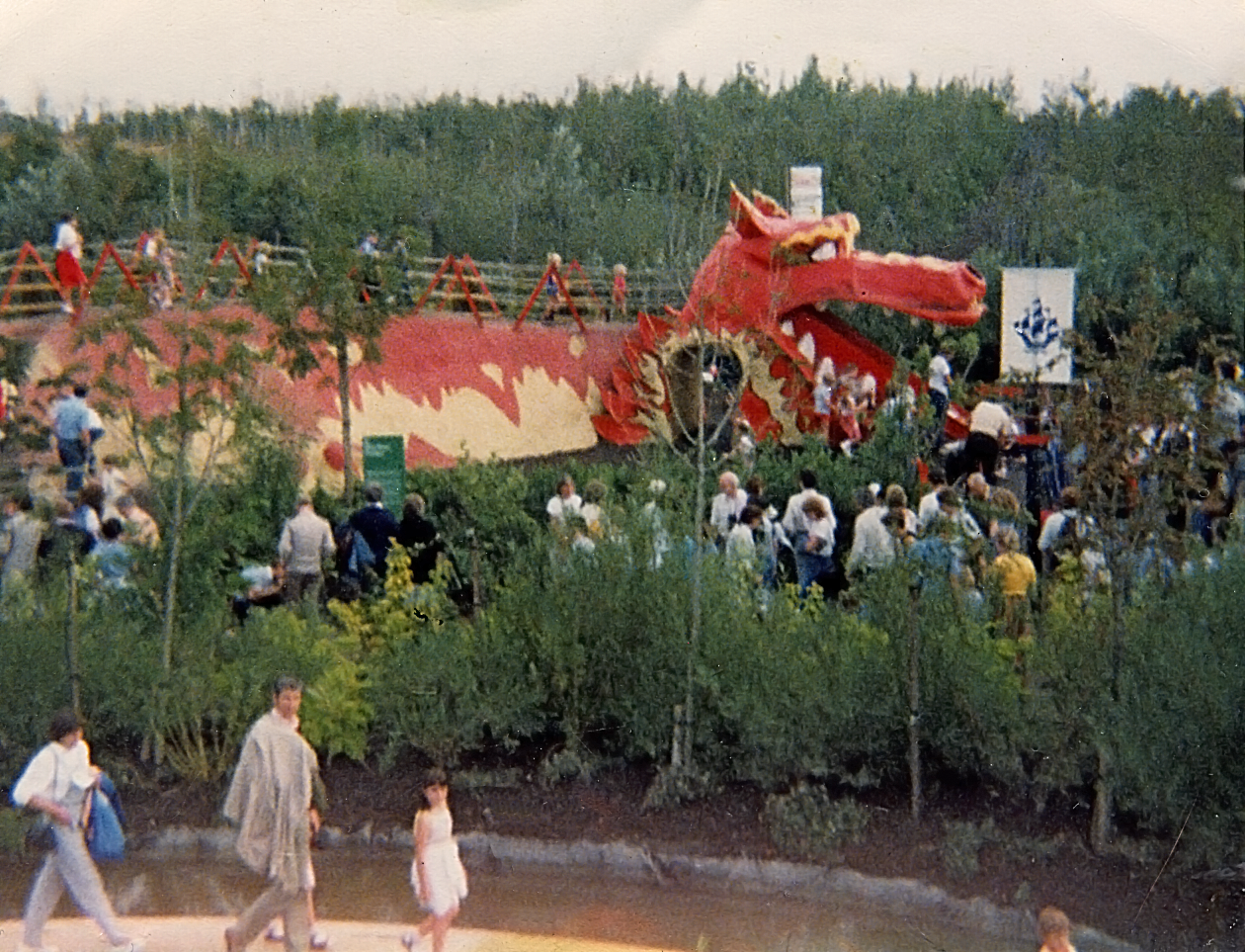 Dragon Slide at The International Garden Festival in the Summer of 1984, Liverpool, England. Photo originally taken on 8th August 1984 on a Hanimex 110F 110mm film camera. Digitally scanned on 10th May 2009.